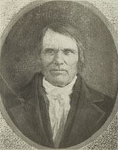 Portrait of Senator Alexander Campbell of Ohio